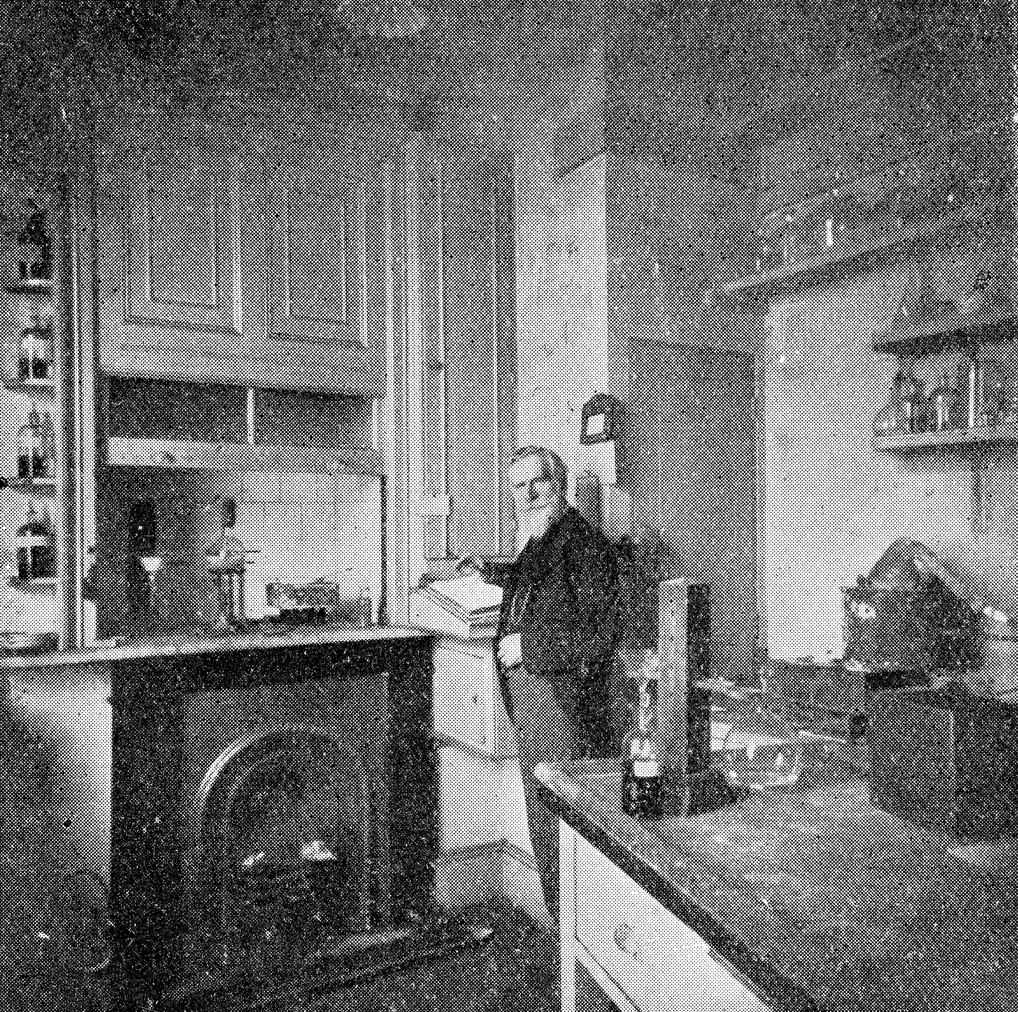 Sir William Crooks in his laboratory. General Collections Keywords: Laboratories